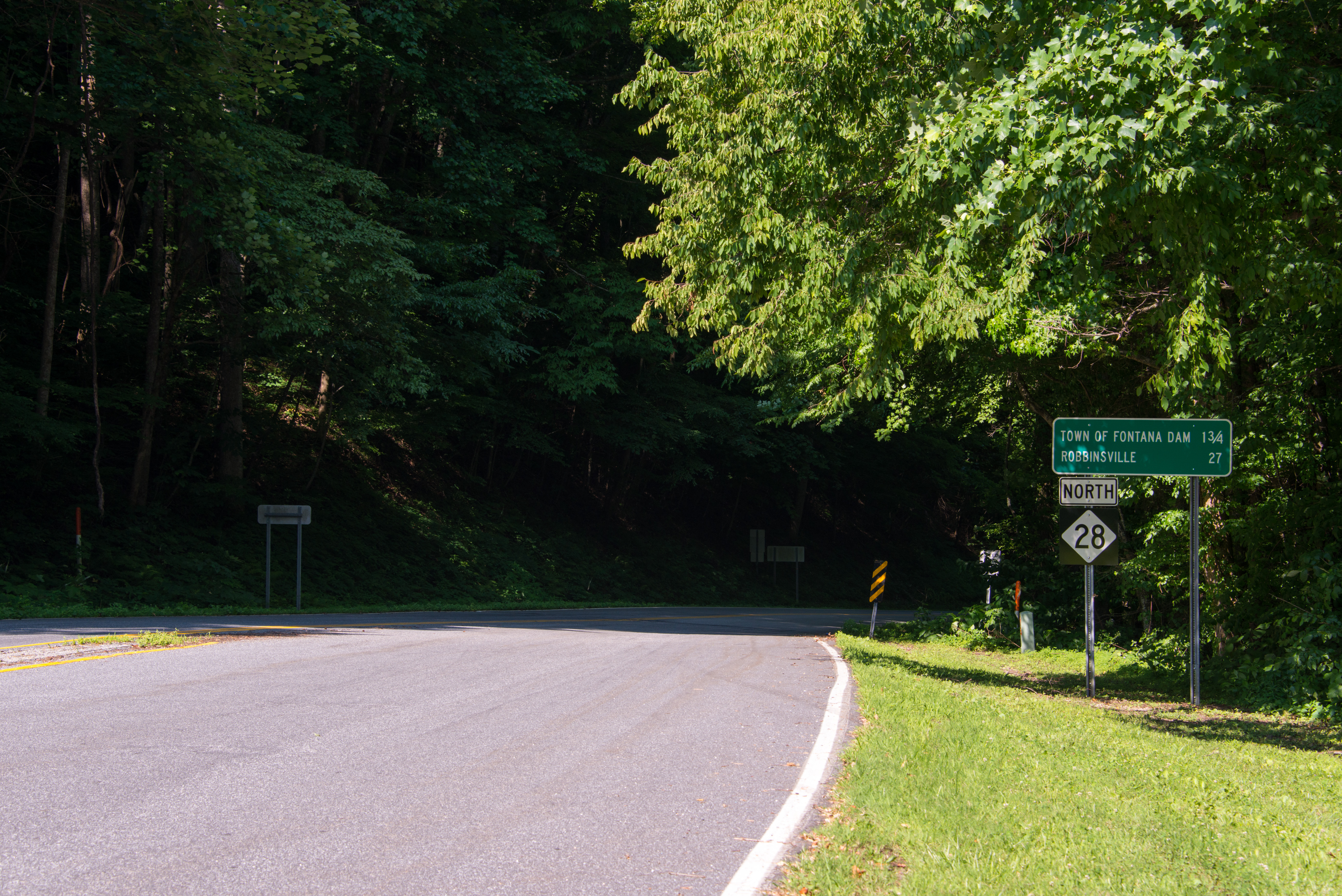 At the intersection of North Carolina Highway 28 and Fontana Dam Road. Town of Fontana Dam (or Fontana Village) is 1 3/4 miles away.